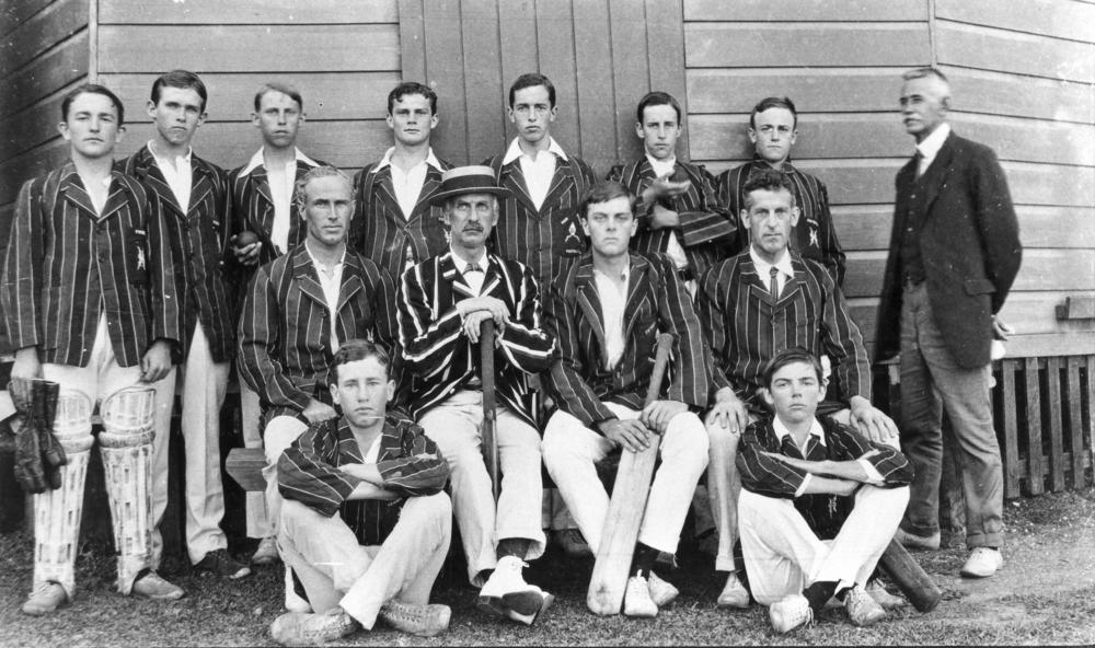 Members of of the Southport School cricket team, Gold Coast, ca. 1912.